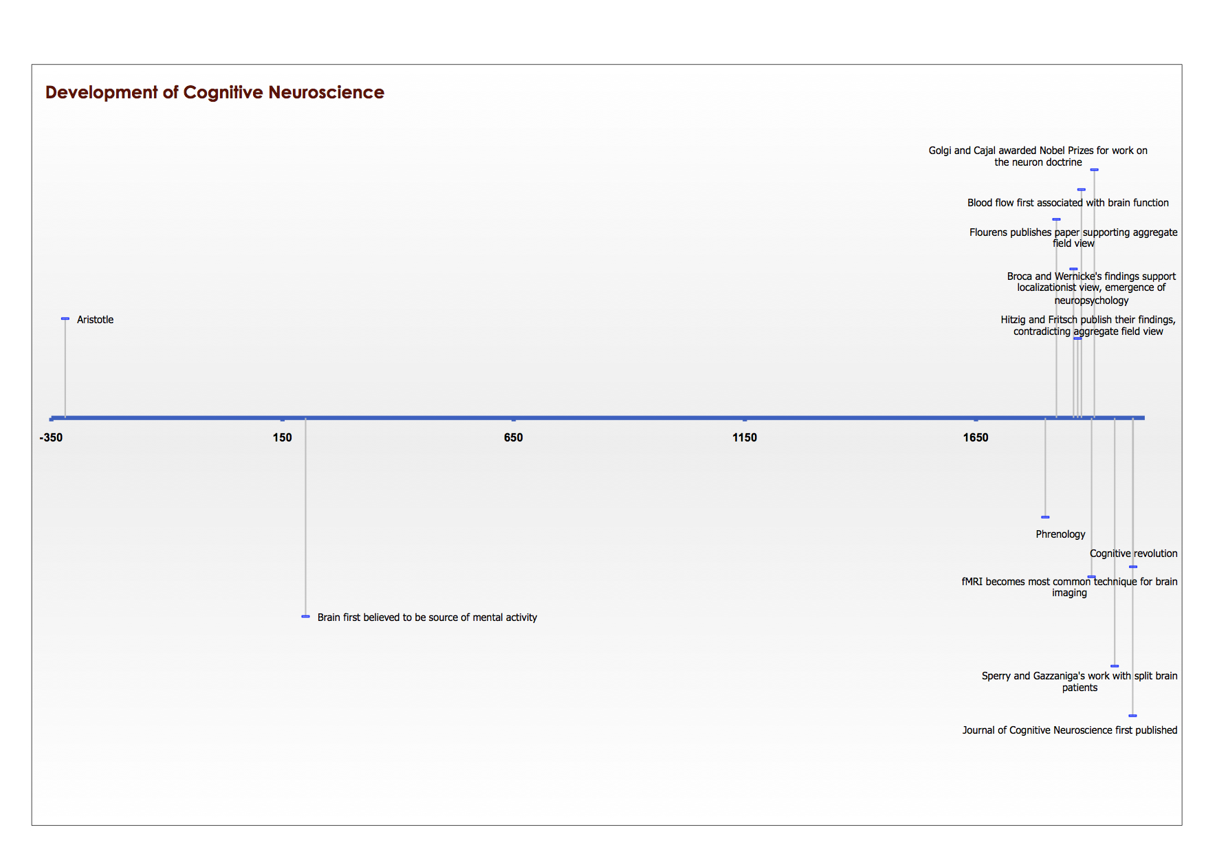 Timeline showing major developments in science that led to the emergence of the field cognitive neuroscience.